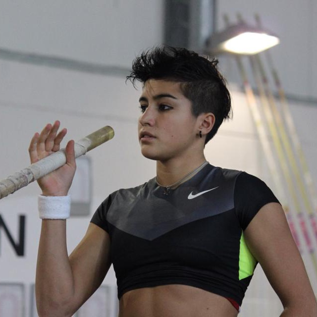 The italian pole vaulter Roberta Bruni.